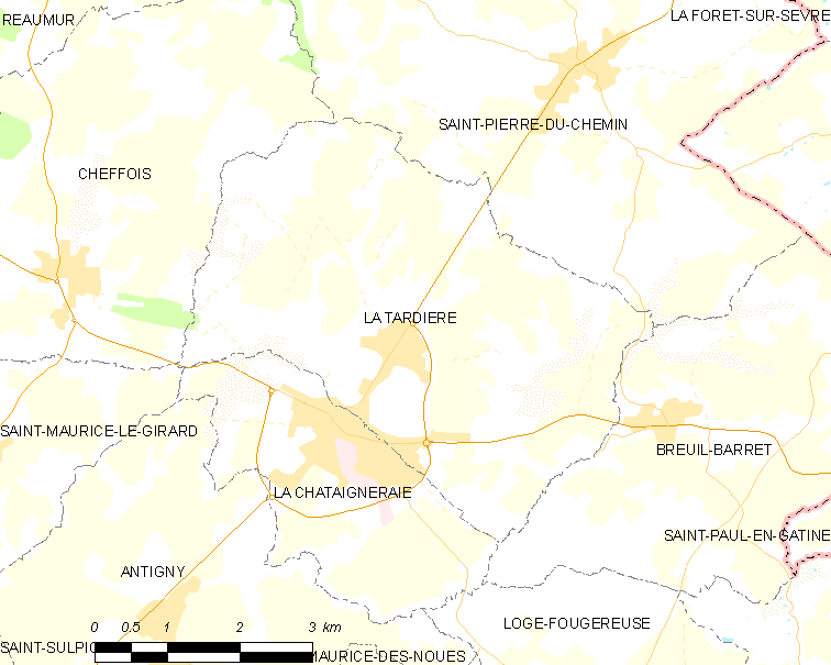 Map of French municipality La Tardière